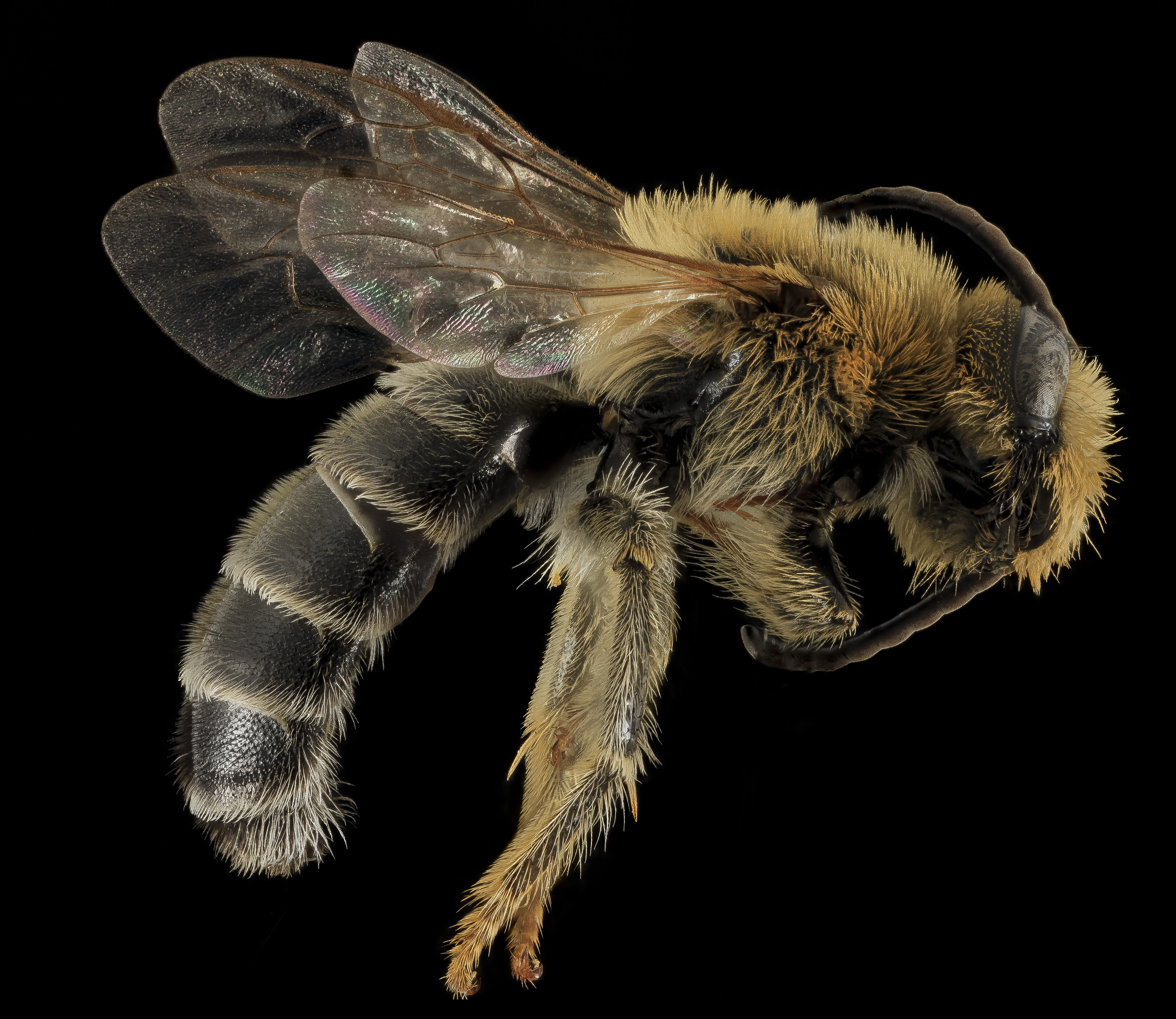 Melitta americana. A cranberry specialist. This bee is one of the few bees that specializes on bogs and bog plants and is found in scattered locations from Southern New England along the coastal plane to the Gulf Coast. This specimen was collected by Heather Campbell in the sandhills of North Carolina. Photograph by Brooke Alexander. Canon Mark II 5D, Zerene Stacker, 65mm Canon MP-E 1-5X macro lens, Twin Macro Flash, F5.0, ISO 100, Shutter Speed 200, link to a .pdf of our set up is located in our profile